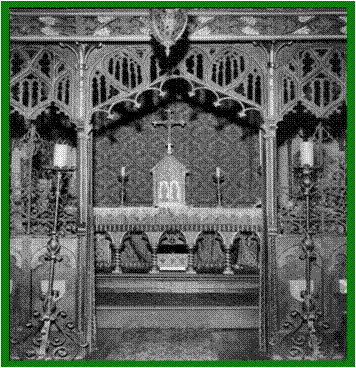 Brother's Chapel